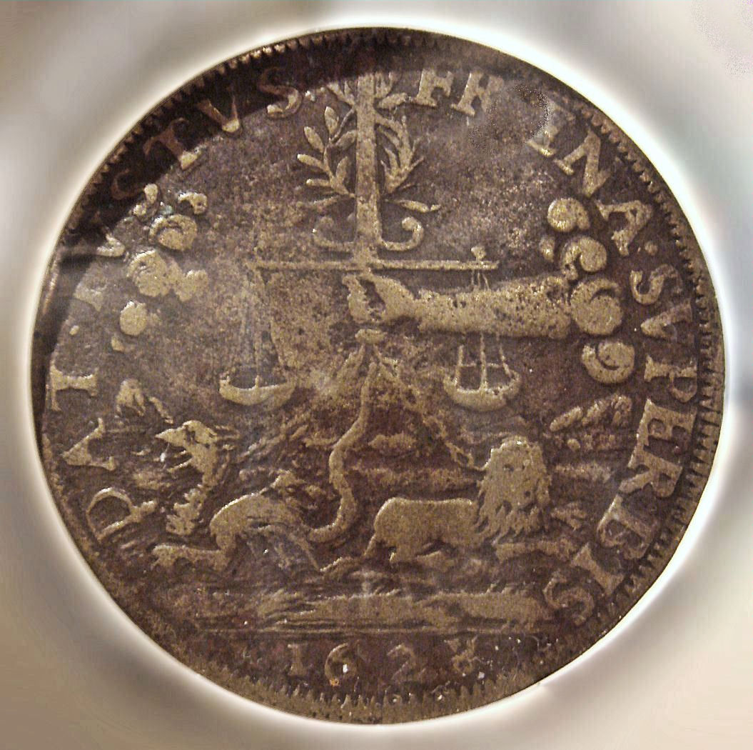 Dragon_and_lion_mastered_1628